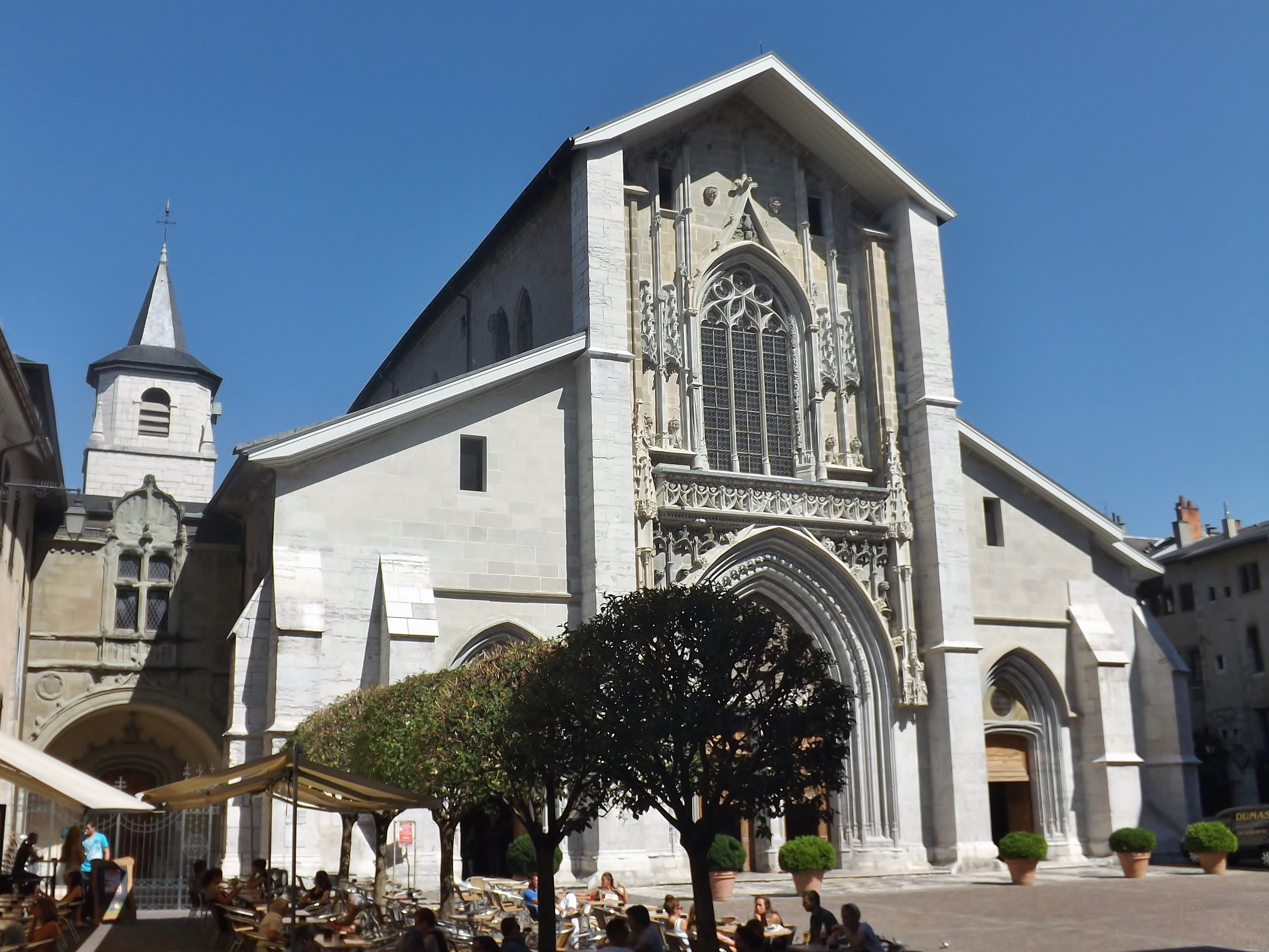 Sight of the Saint-François-de-Sales cathedral of Chambéry, in Savoie, France.